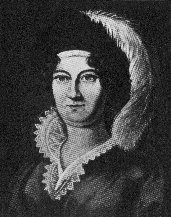 Portrait of Madame Du Titre